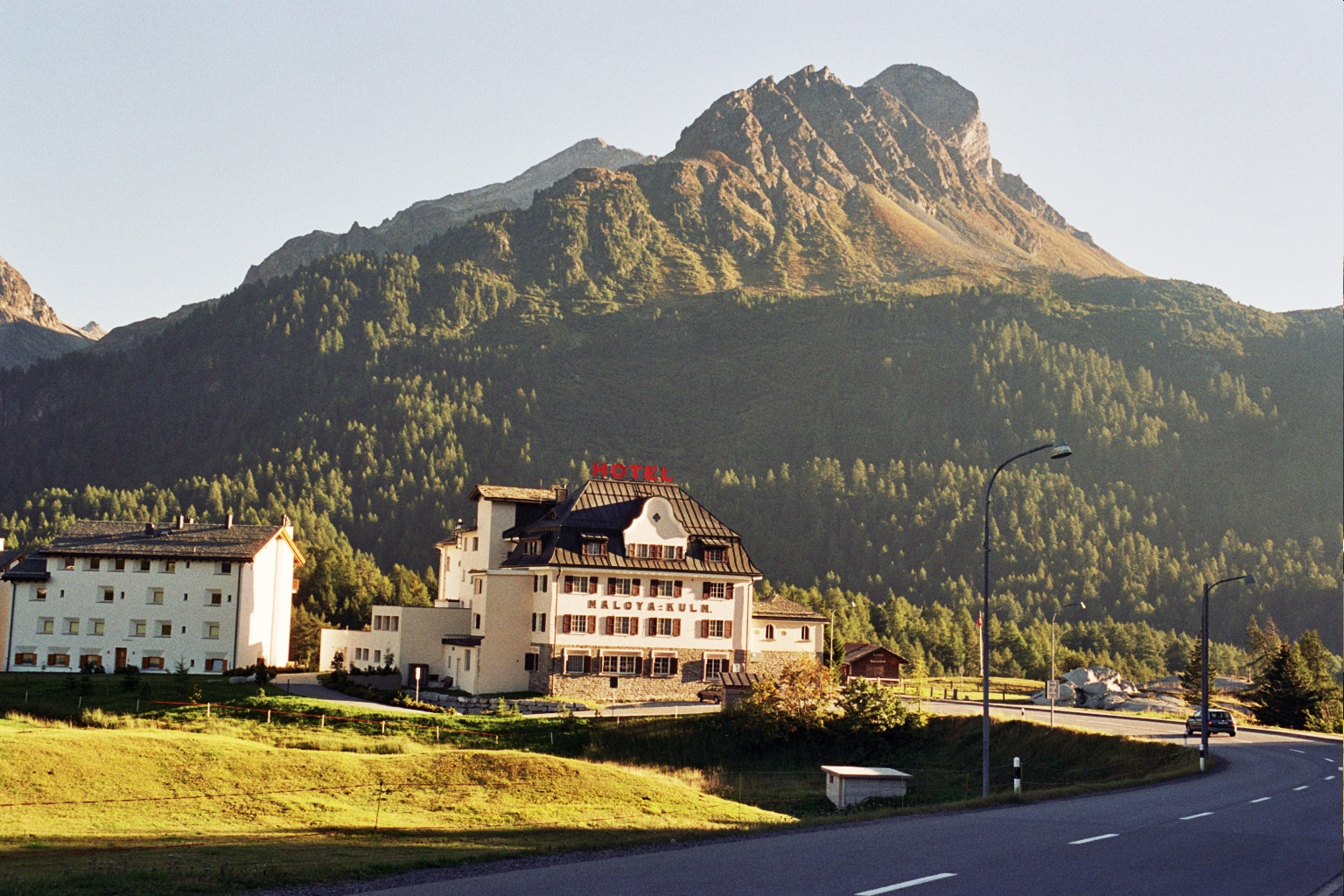 Maloja-Pass, Switzerland, Hotel Maloja-Kulm. View to south: Piz Salacina (2599m), background Cima da Murtaira (2858m)